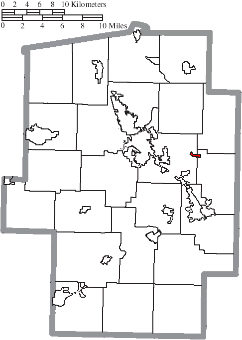 Map of the municipal and township boundaries of Tuscarawas County, Ohio, United States, as of the 2000 census, with the location of the village of Roswell highlighted. Township borders are shown only in unincorporated areas in order to differentiate incorporated and unincorporated areas more clearly.